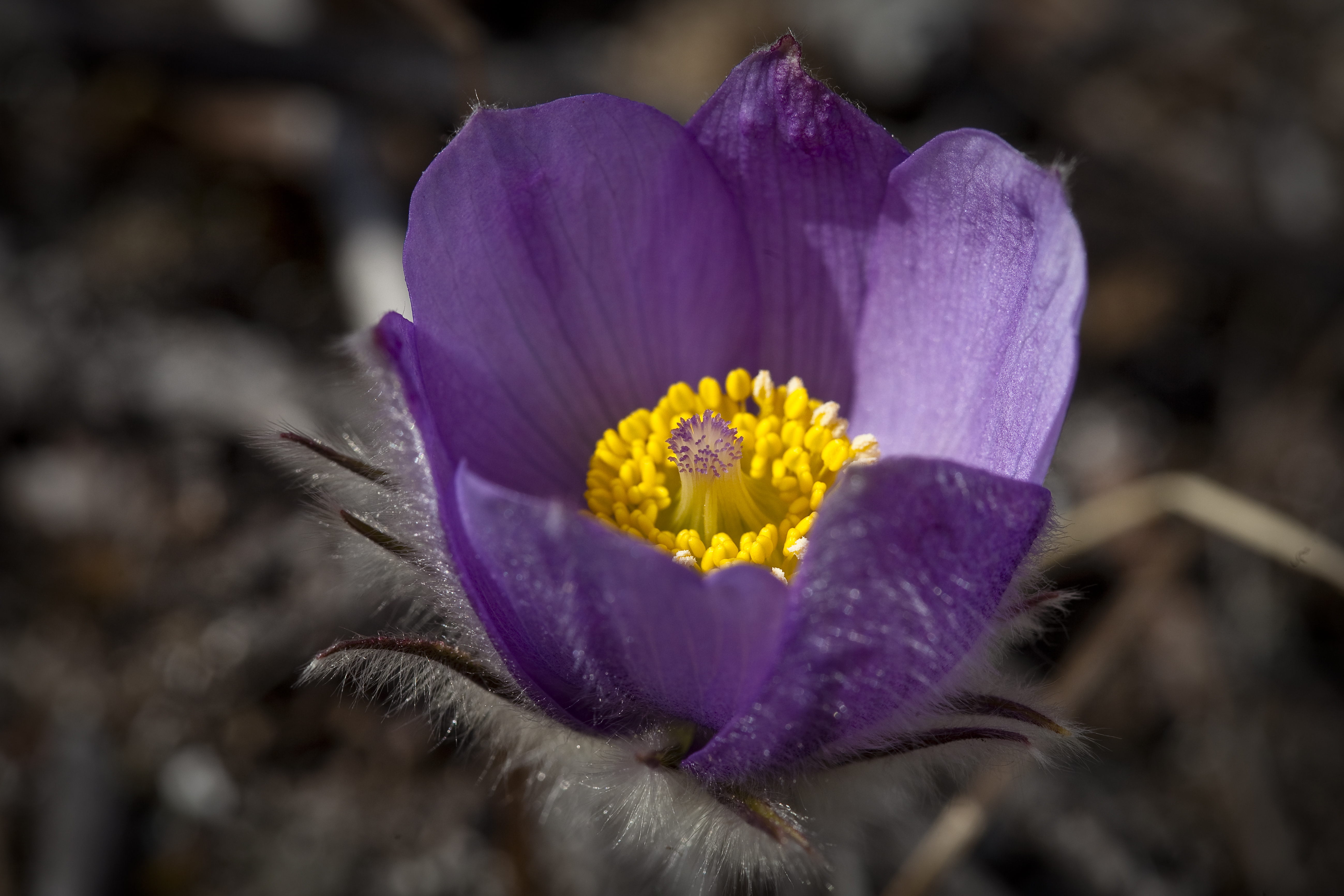 Anemone patens syn. Pulsatilla patens Denali National Park and Preserve, AK, USA